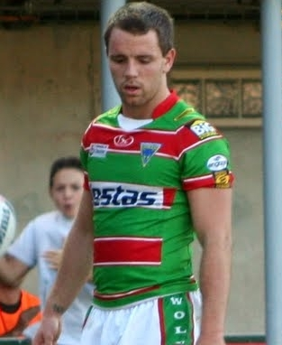 Richie Myler